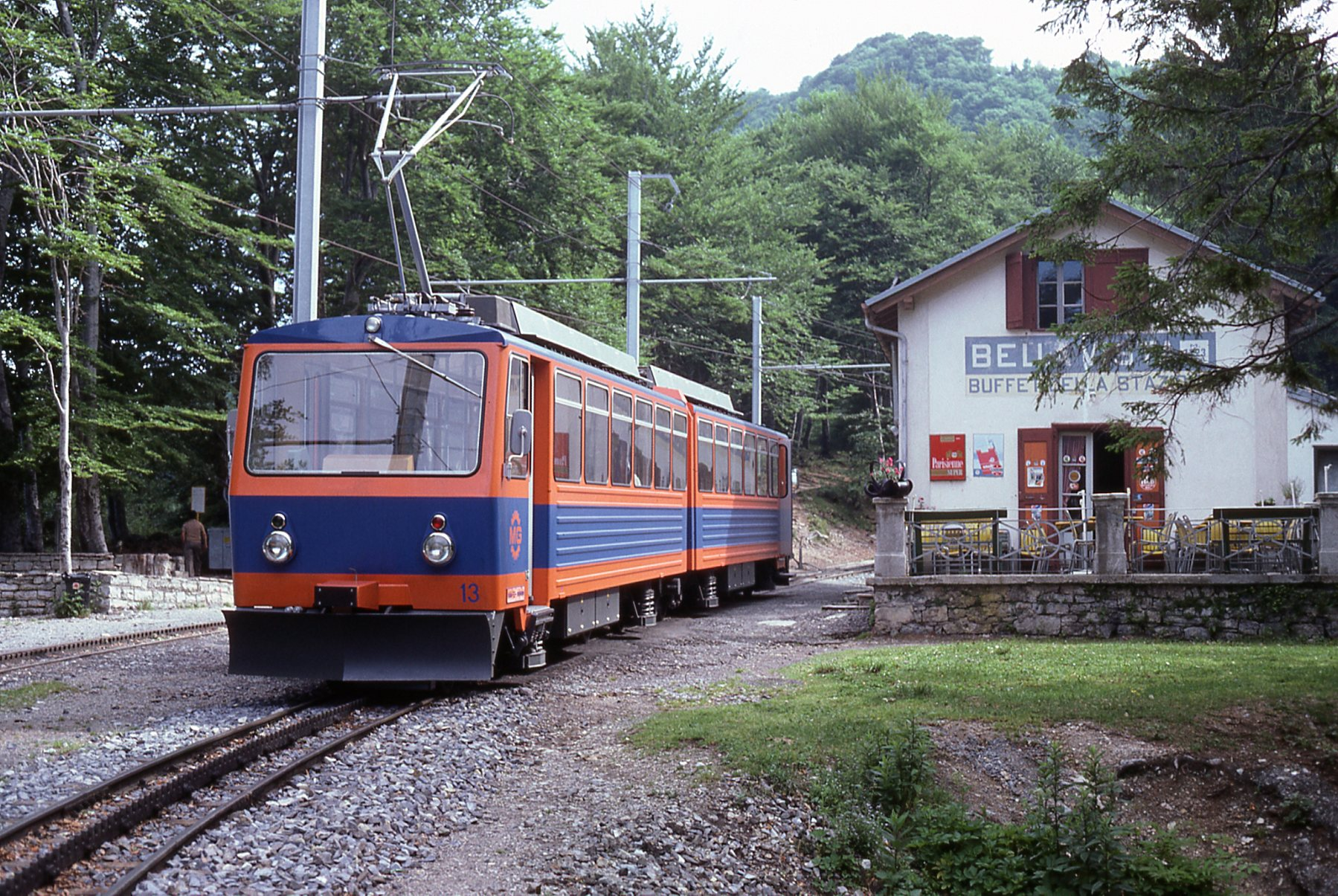 Electric double motor coach Bhe 4/8 13 Salorino in Bellavista station of the Monte Generoso Railway (MG).